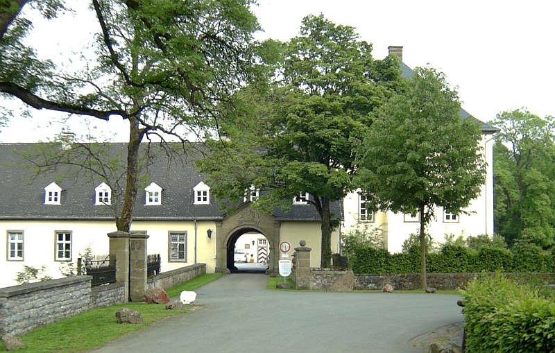 Schloss Alme, Brilon-Alme (Germany)